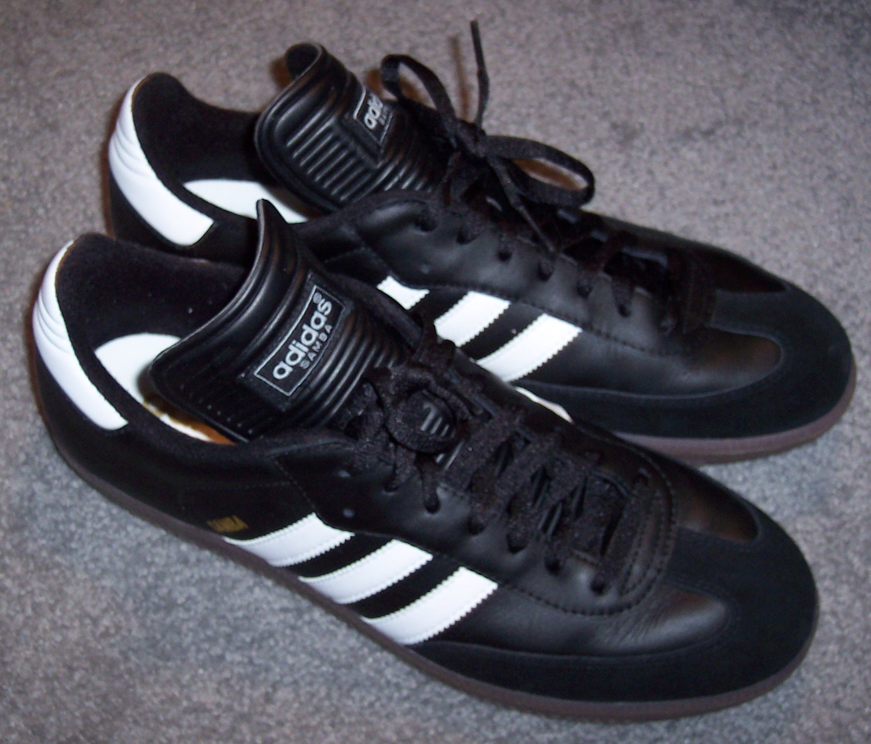 Adidas Samba sneakers, Originals branch